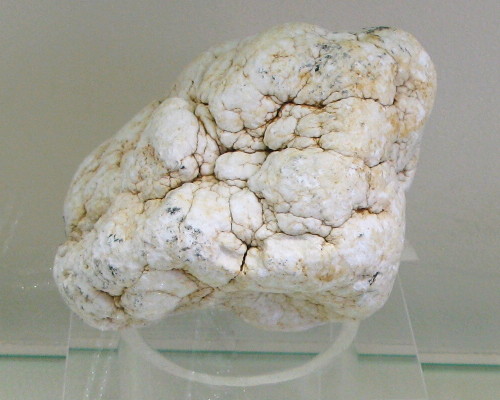 Aluminite - Locality: Newhaven, Sussex, England - Exposed in the Mineralogical Museum, Bonn, Germany